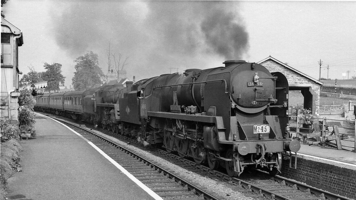 Bradford - Bournemouth express pounding through Midsomer Norton station. View northward, towards Bath: ex-Somerset & Dorset (Midland & LSW Joint) line, Bath (Green Park) - Templecombe - Bournemouth West. It was a Summer Saturday and the heavy 07.40 from Bradford (Forster Square) had reversed at Bath (dep. 14.50 was due at Bournemouth West at 17.35. It needs two large locomotives to tackle the heavy gradients, here the long climb from Radstock up to Masbury. SR rebuilt Bulleid Light Pacific No. 34048 'Crediton' (built 11/46 as 21C148, rebuilt 3/59, withdrawn 3/66) is piloting BR Standard 5MT 4-6-0 No. 73019 (built 11/51, withdrawn 1/67). The station was closed with the line on 7/3/66, but the premises and a short length of track now belong to the Somerset & Dorset Railway Heritage Trust. (See also ST6653 : Midsomer Norton South Station, with Down express).